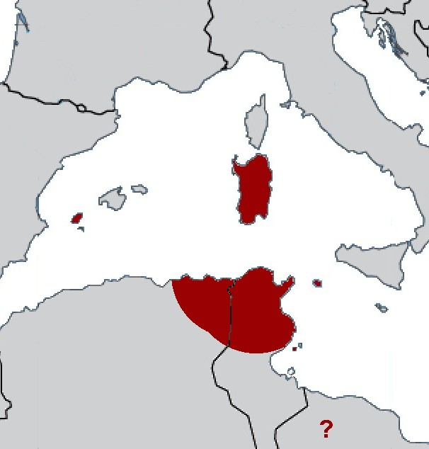 Distribution of Crocidura pachyura - Mediterranean shrew